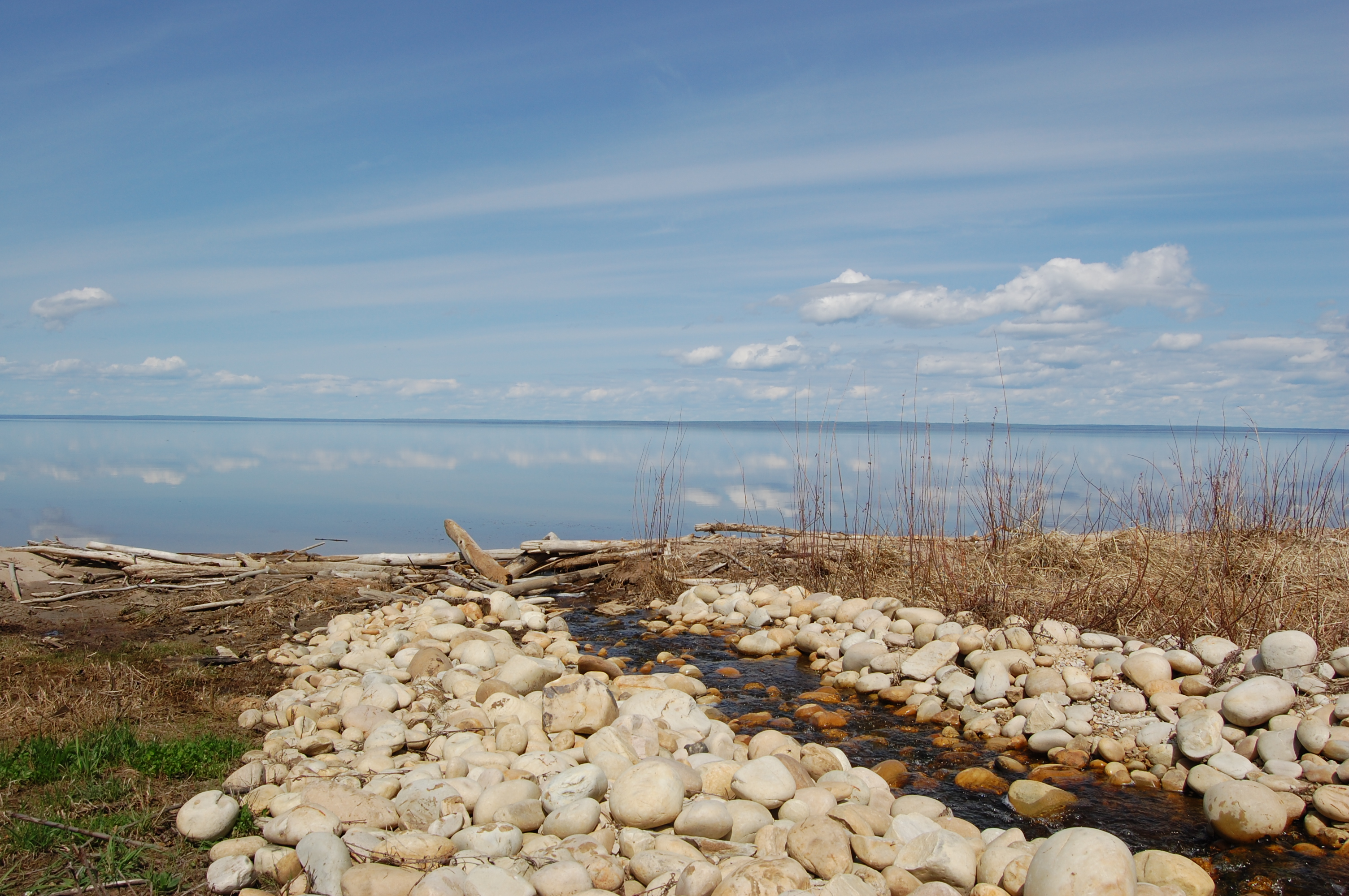 Photograph of Canyon Creek flowing into Lesser Slave Lake, Alberta.